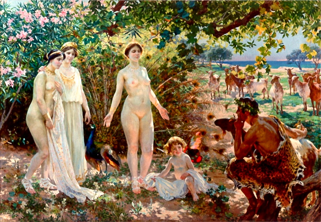 The painting shows the Judgment of Paris, an event in Greek mythology. Figures, from left to right: The goddesses Athena, Hera and Aphrodite, then Aphrodite's son, Eros, and Paris.